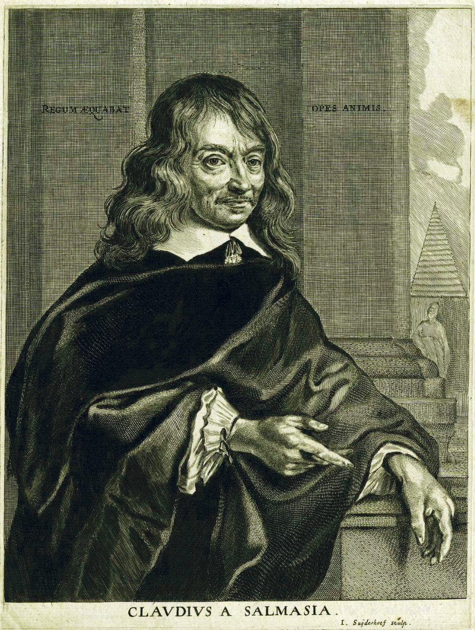 Portrait of Claude Saumaise (Claudius Salmasius), half-length to right, standing on front of a pillar, a pyramid in right background. British Museum inv. 1862,0712.61.